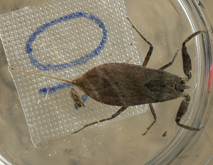 Víziskorpió Petri-csészében (Pilisszentiván, 2010)